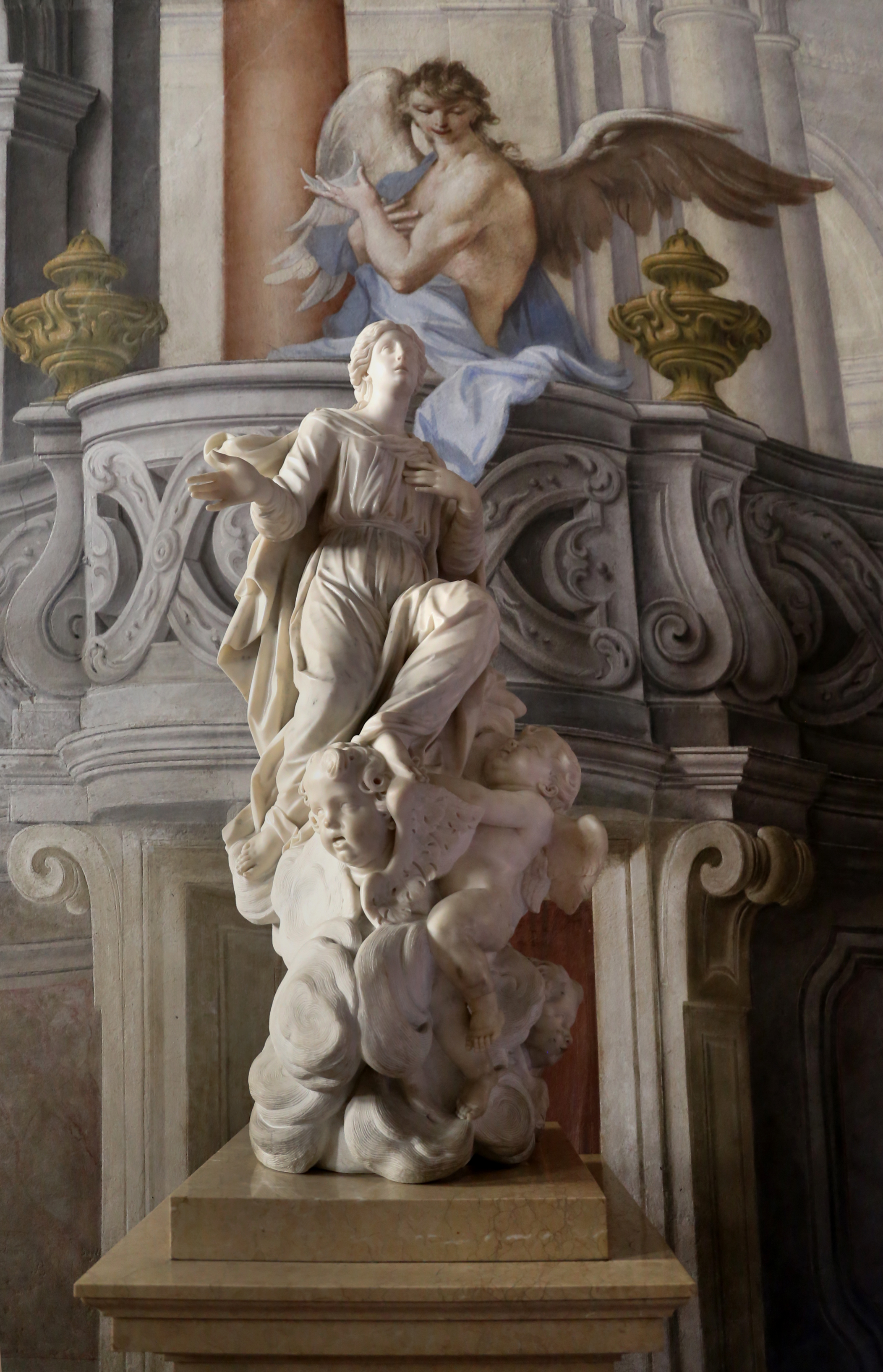 Cathedral (Parma) - Interior